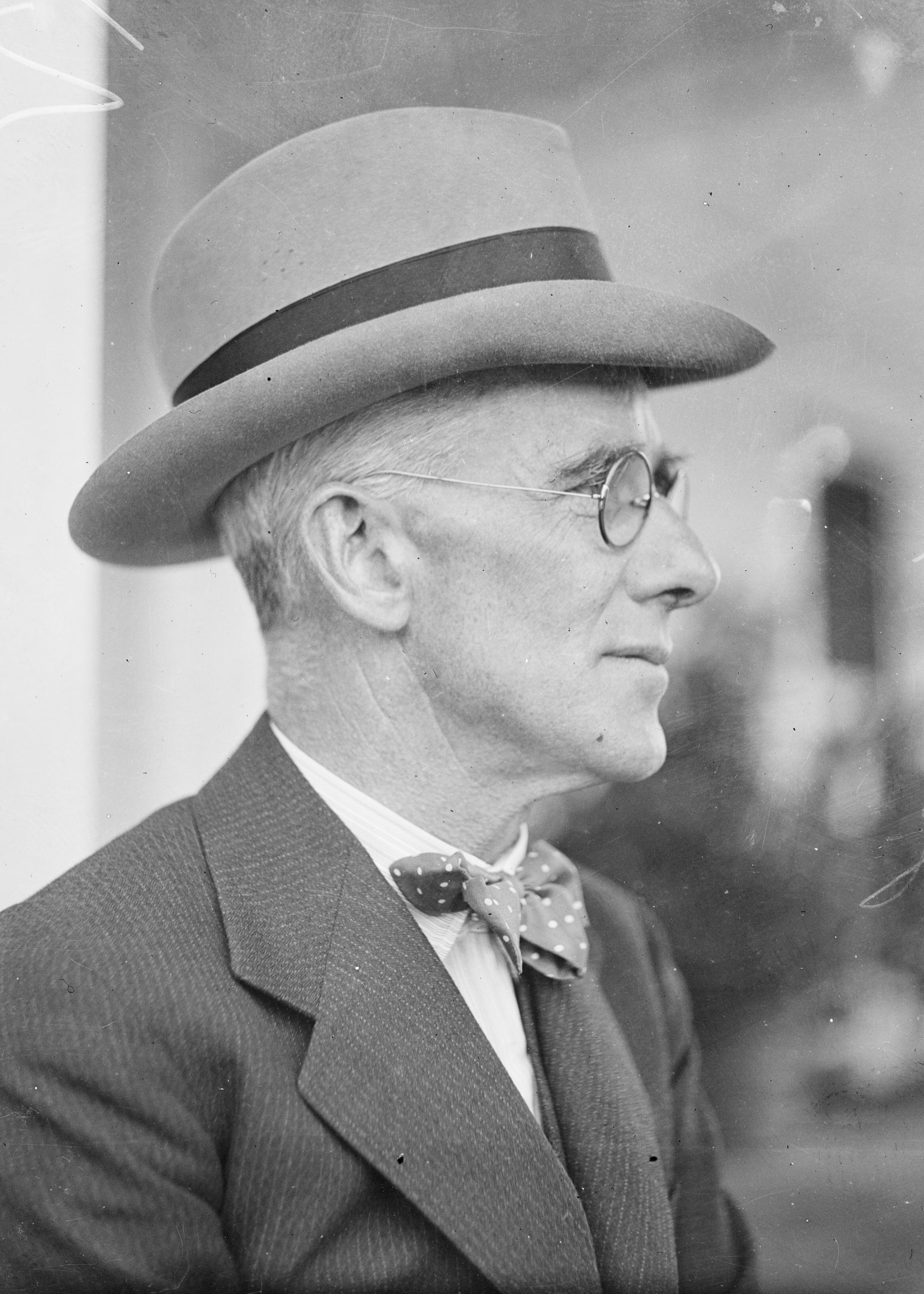 Henry Gullett, Australian politician